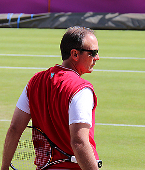 Paul Annacone at the 2012 Summer Olympics.